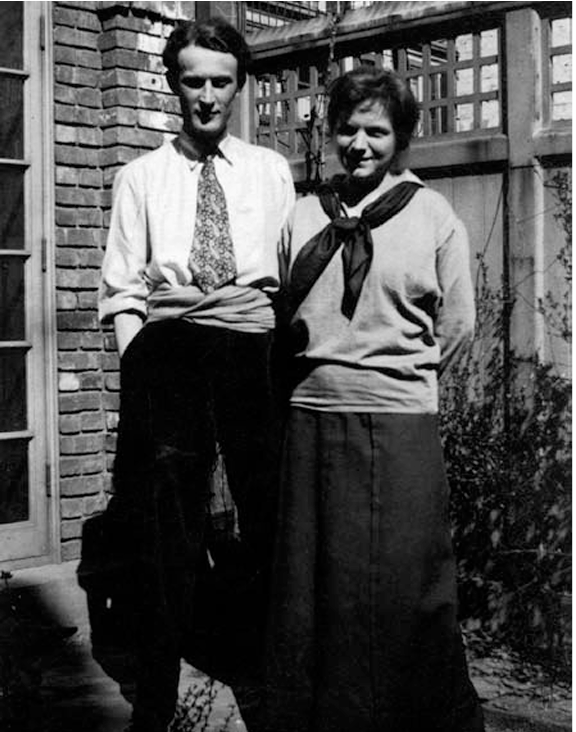 photo